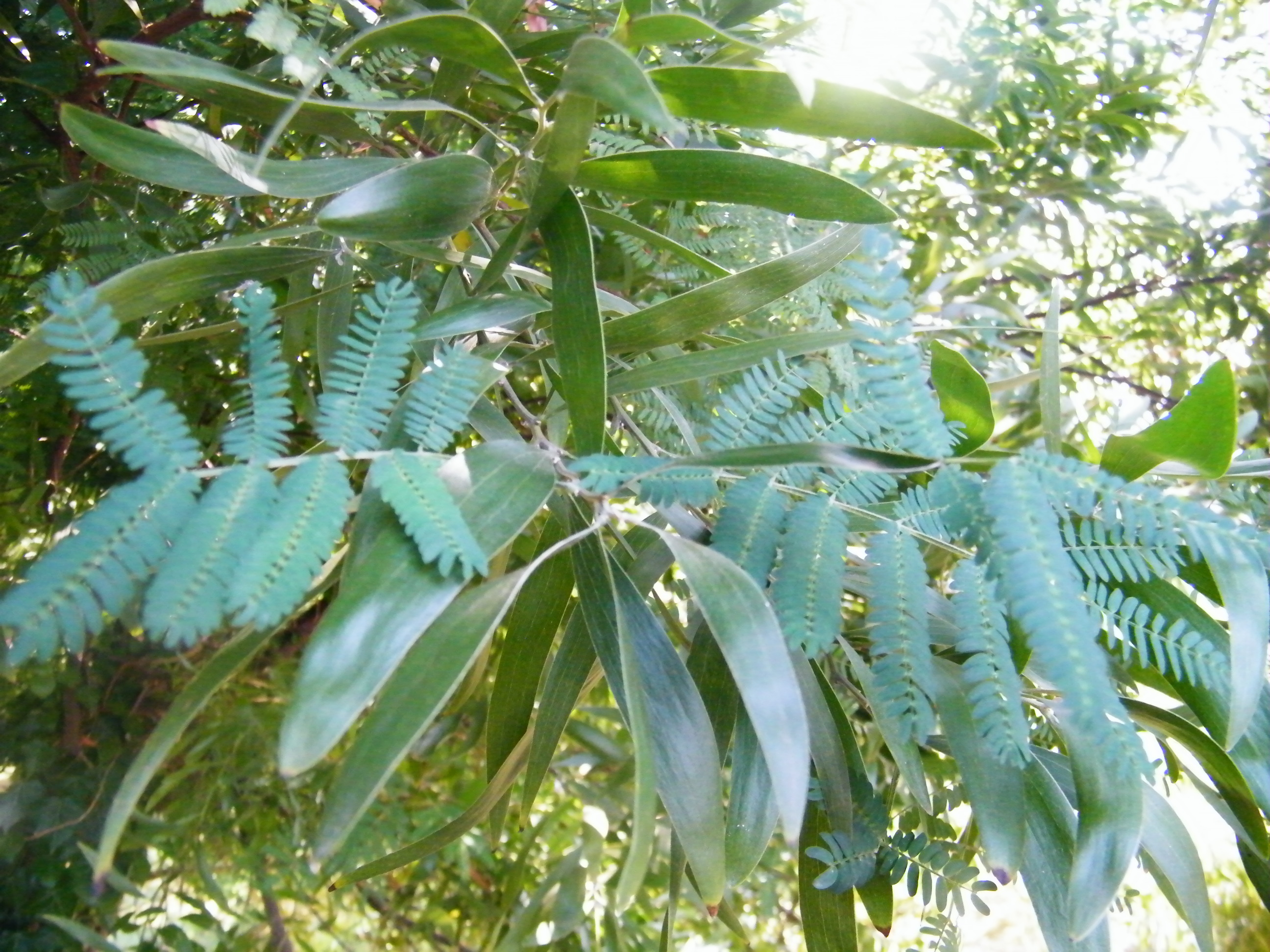 Leaves of Acacia melanoxylon